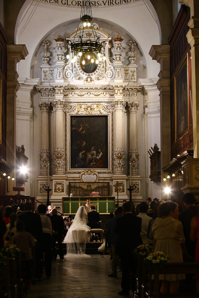 Marriage at the Cathedral (Syracuse)